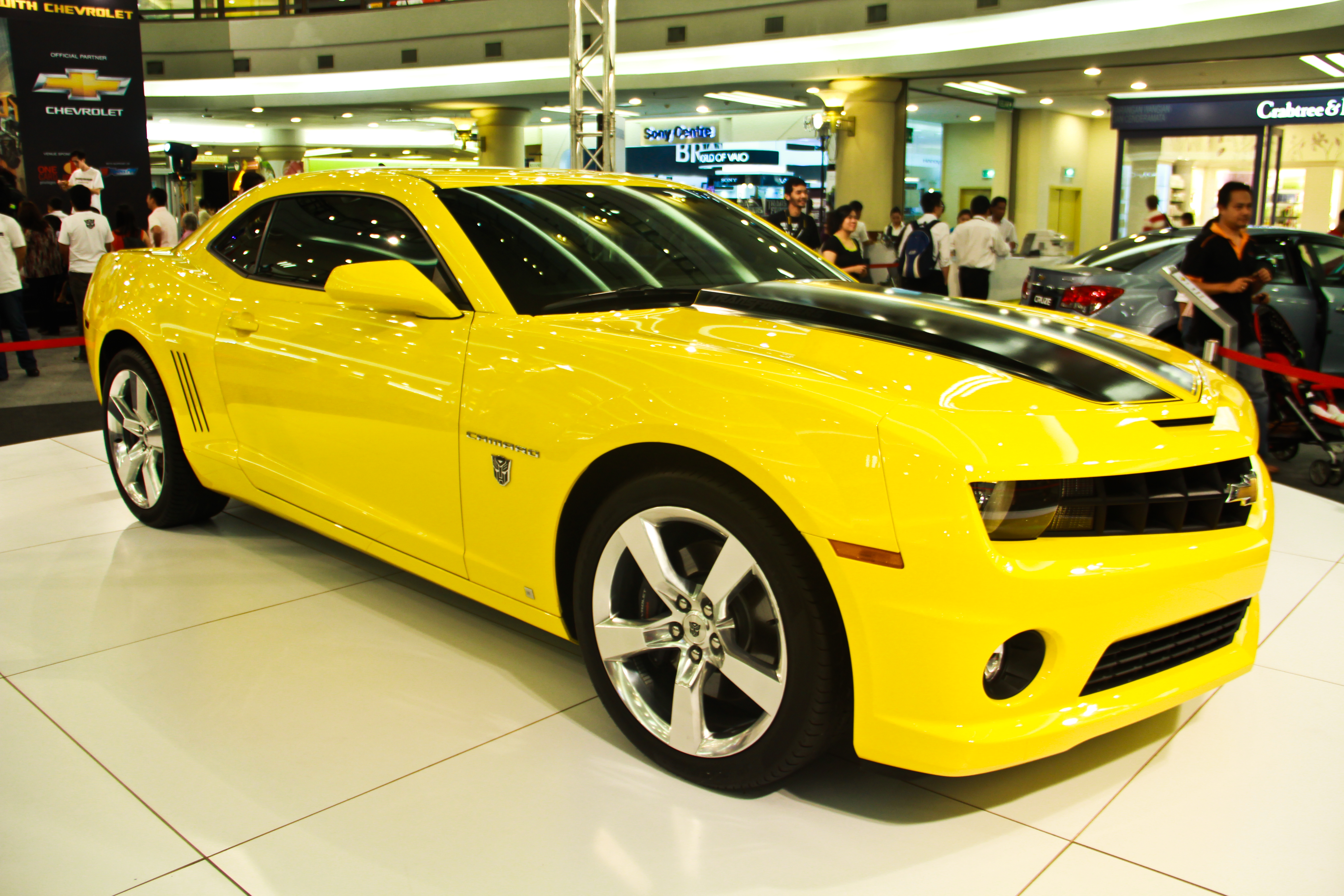 Taken at Transformers: Dark of The Moon event @ 1 Utama Shopping Center, Petaling Jaya, Selangor, Malaysia.